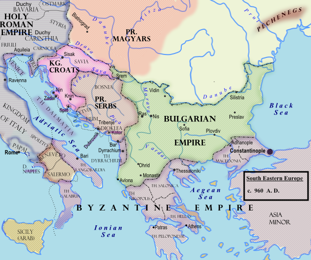 Southeastern Europe around 950 AD